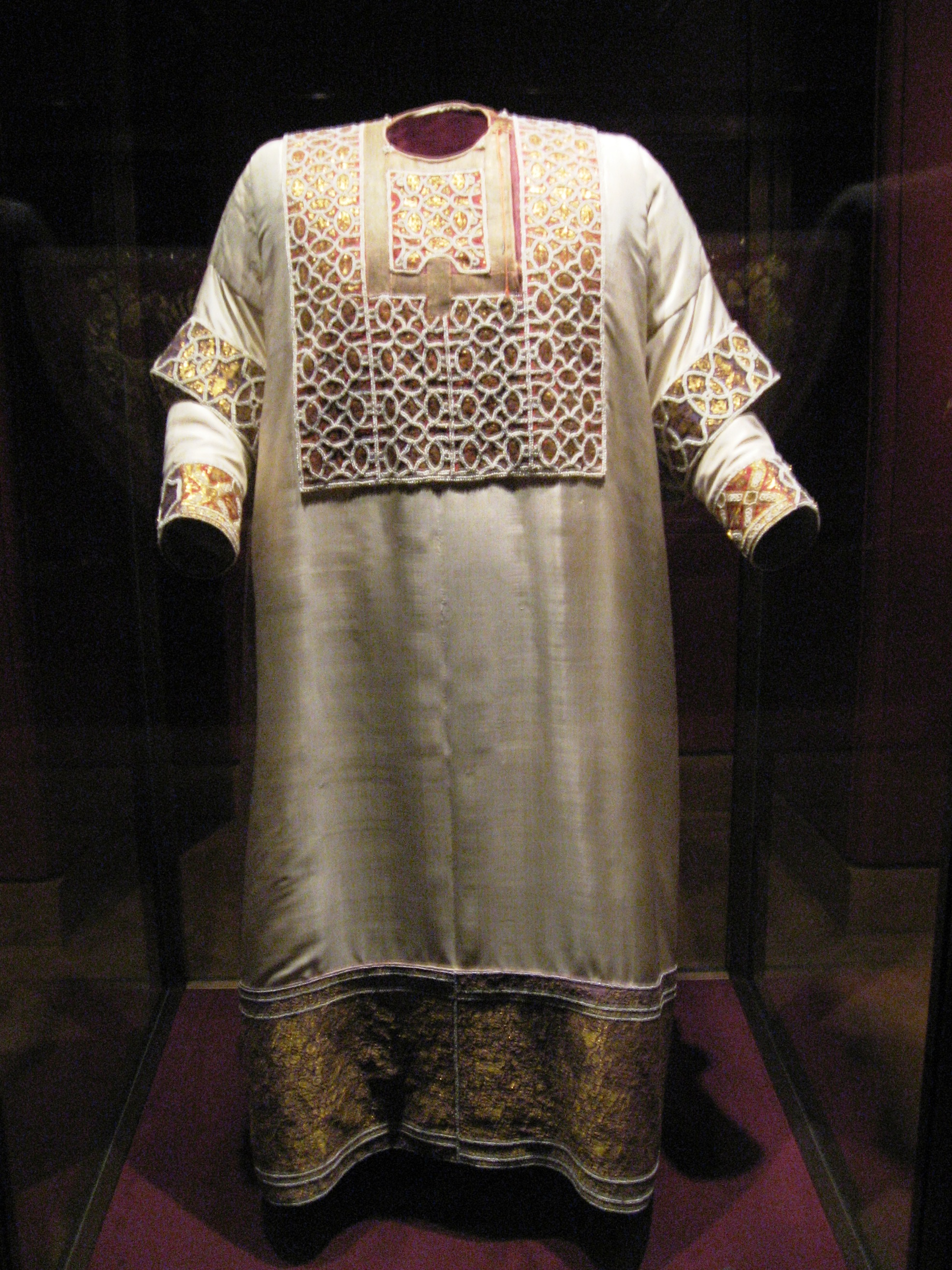 The Alb.